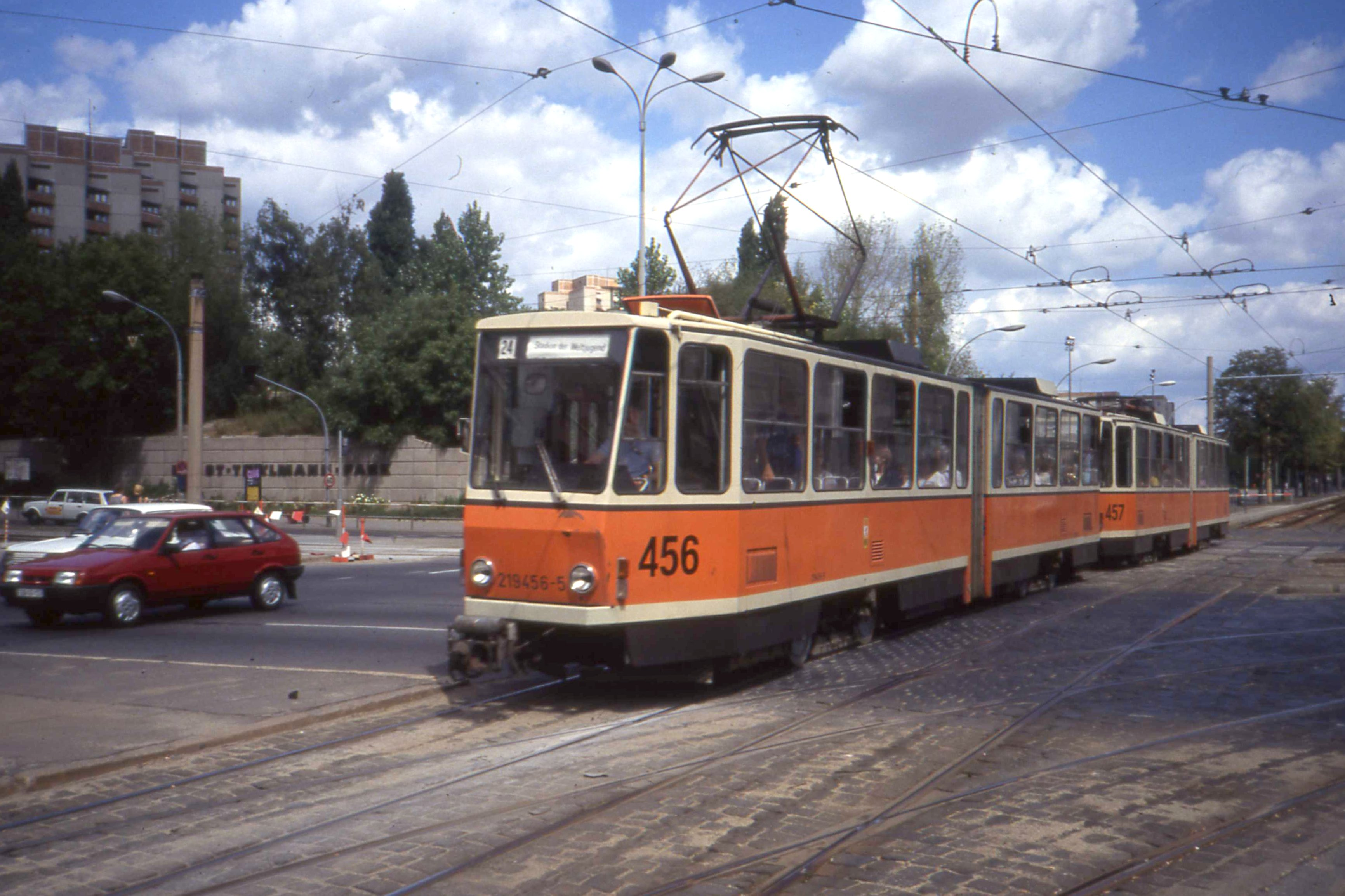 Tatra KT4D 219 456 and 219 457 in Berlin, former East Germany, August 1990